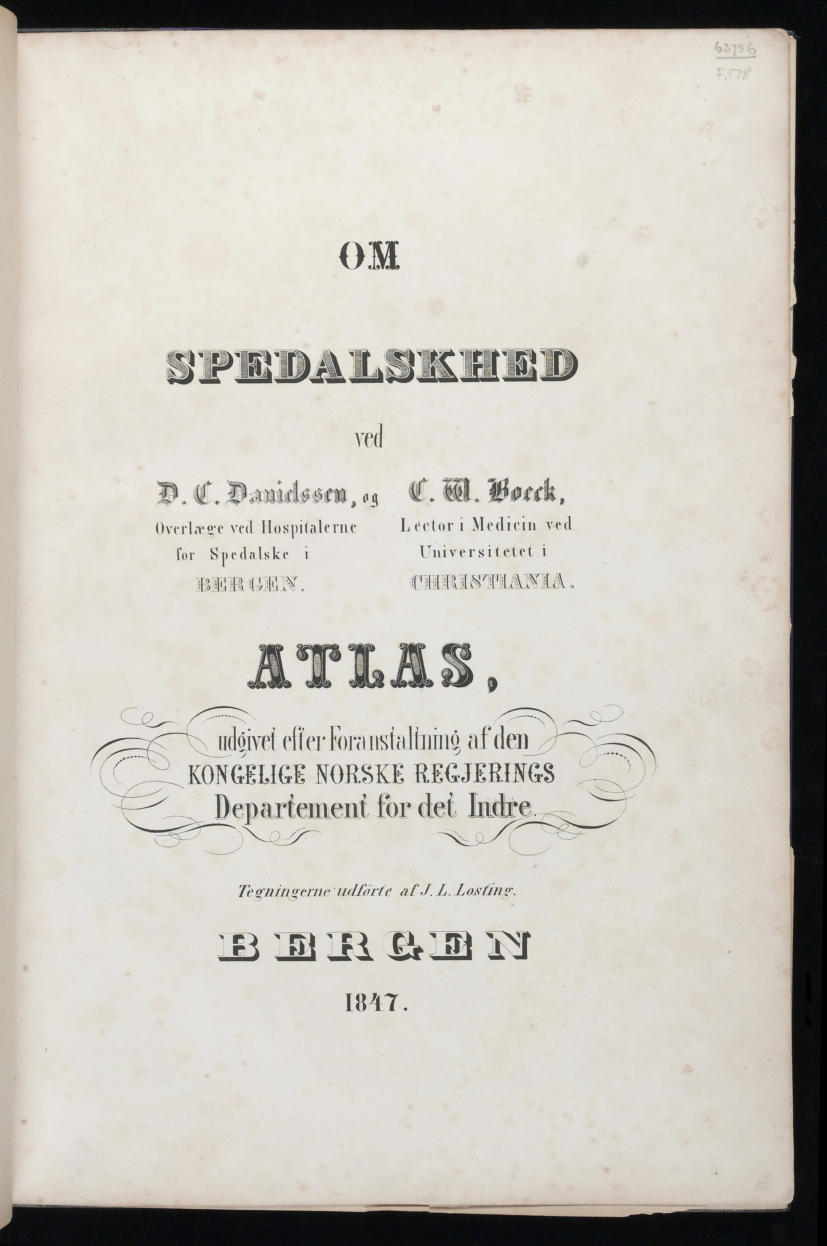 Title page of 'Om Spedalskhed' Rare Books Keywords: Leprosy